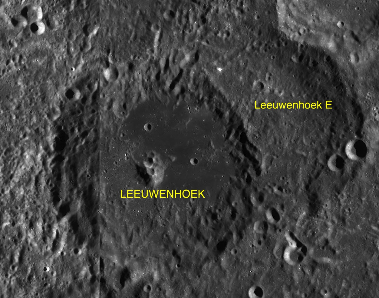 Part of the chart LAC-104 used for the presentation